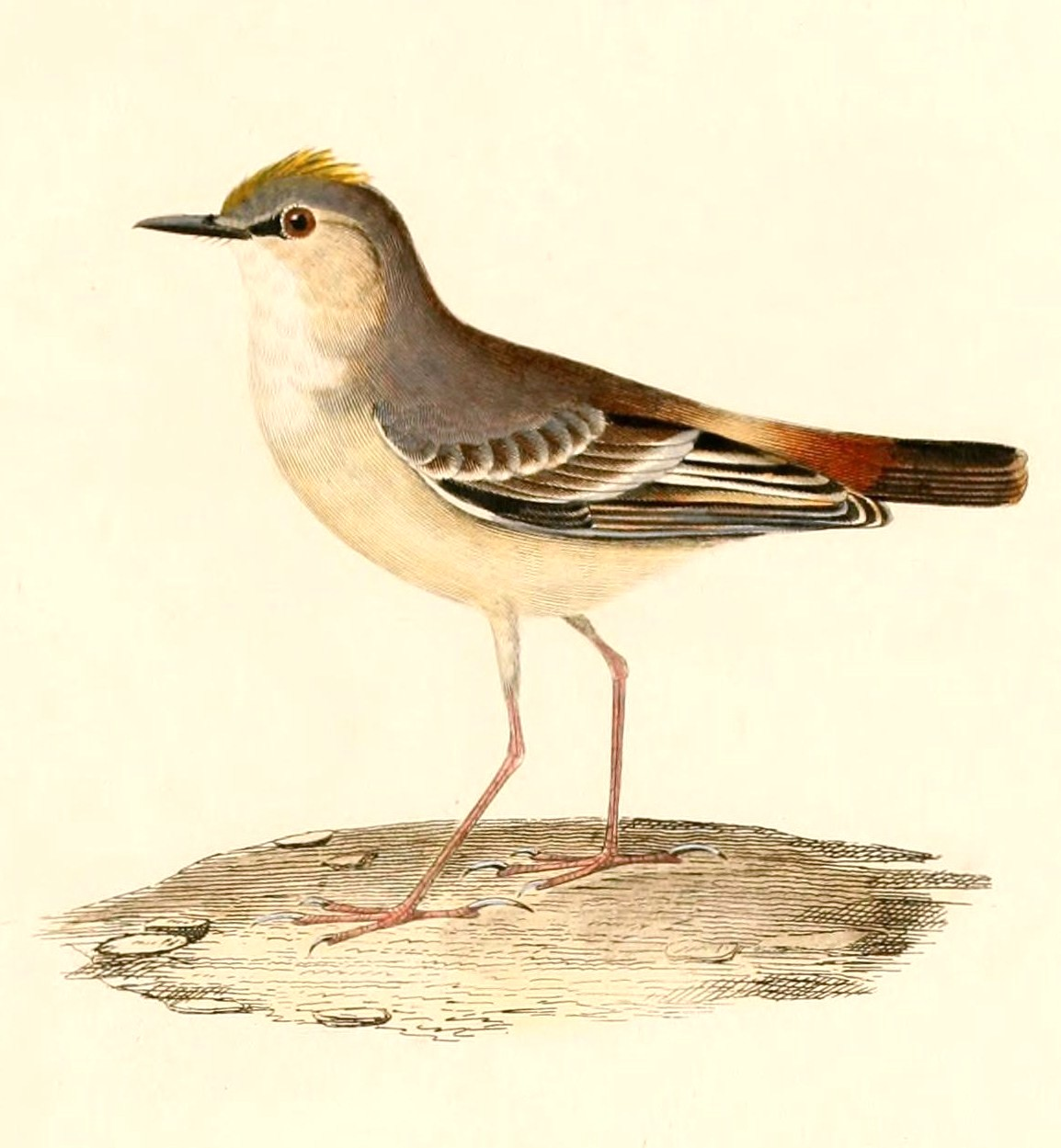 « Muscigralla brevicauda » = Muscigralla brevicauda (Short-tailed Field Tyrant)